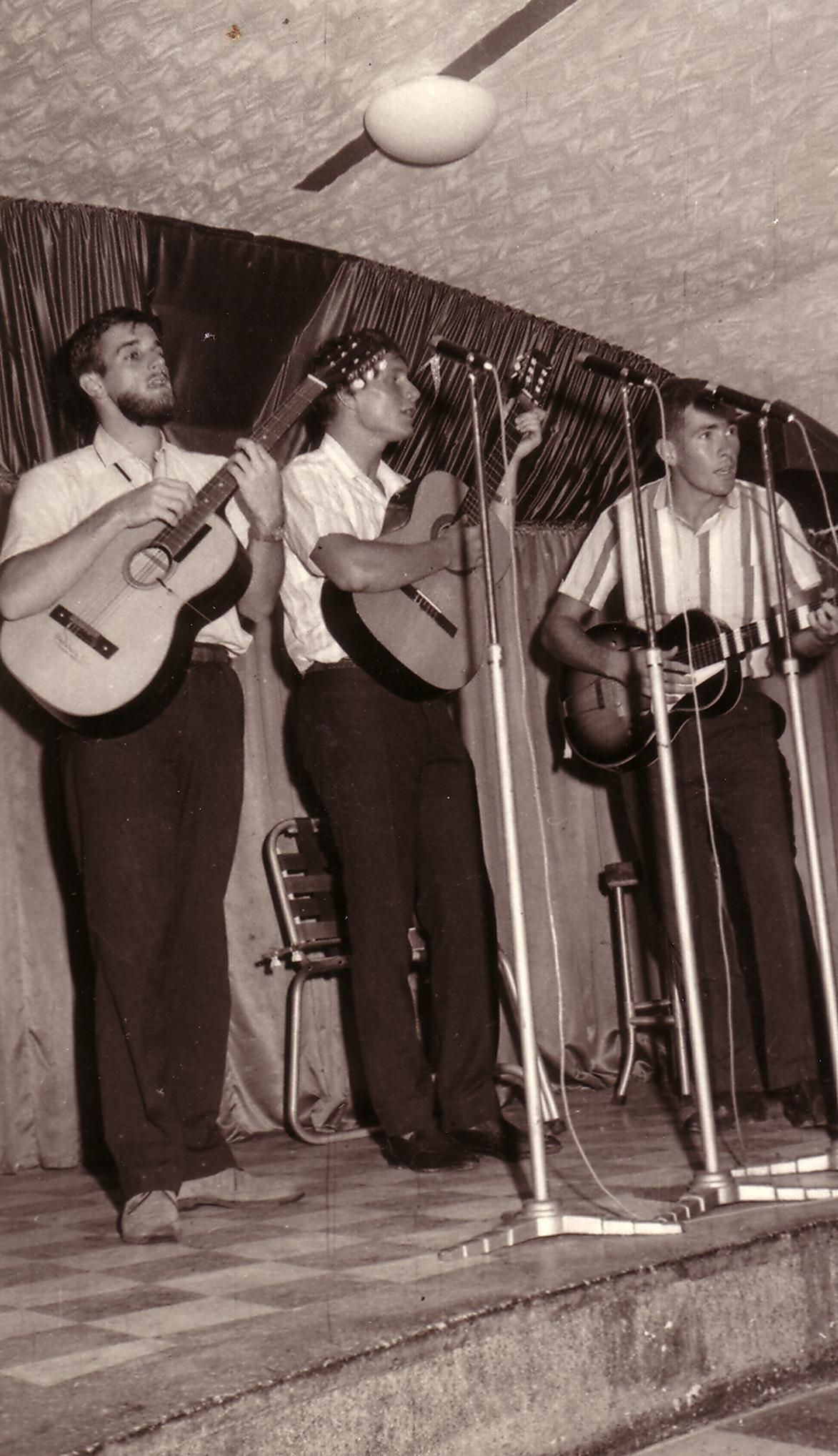 Babayaga Trio members from left are: Ray Gurney, Murray Uhlmann, Frank White